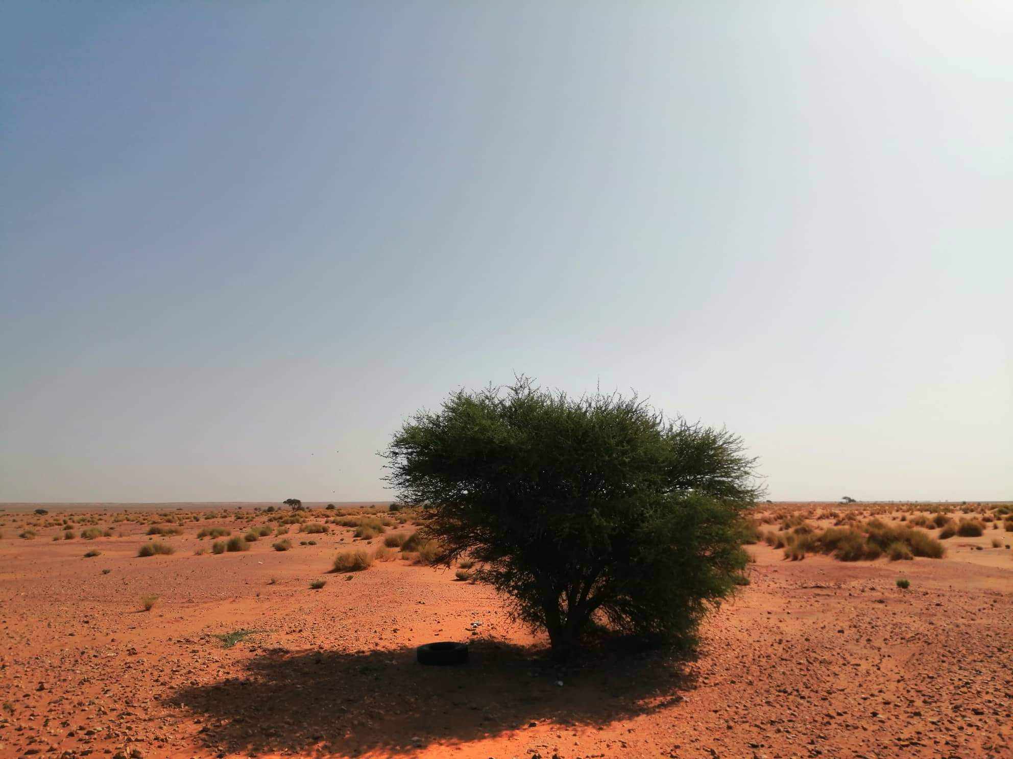 This is an image with the theme "Africa on the Move or Transport" from: Algeria